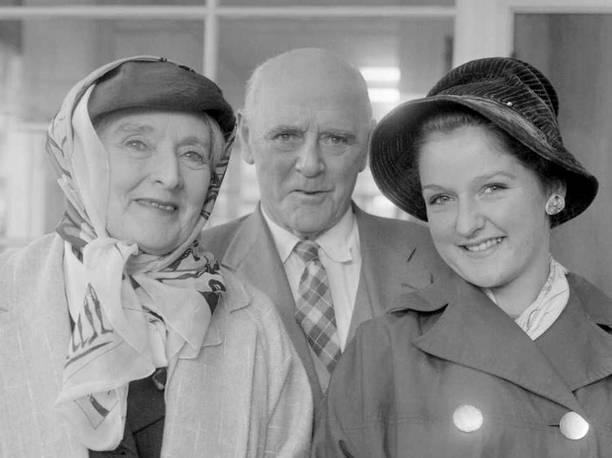 Dame Sybil Thorndike, Sir Lewis Cassan and Laura Jane Casson